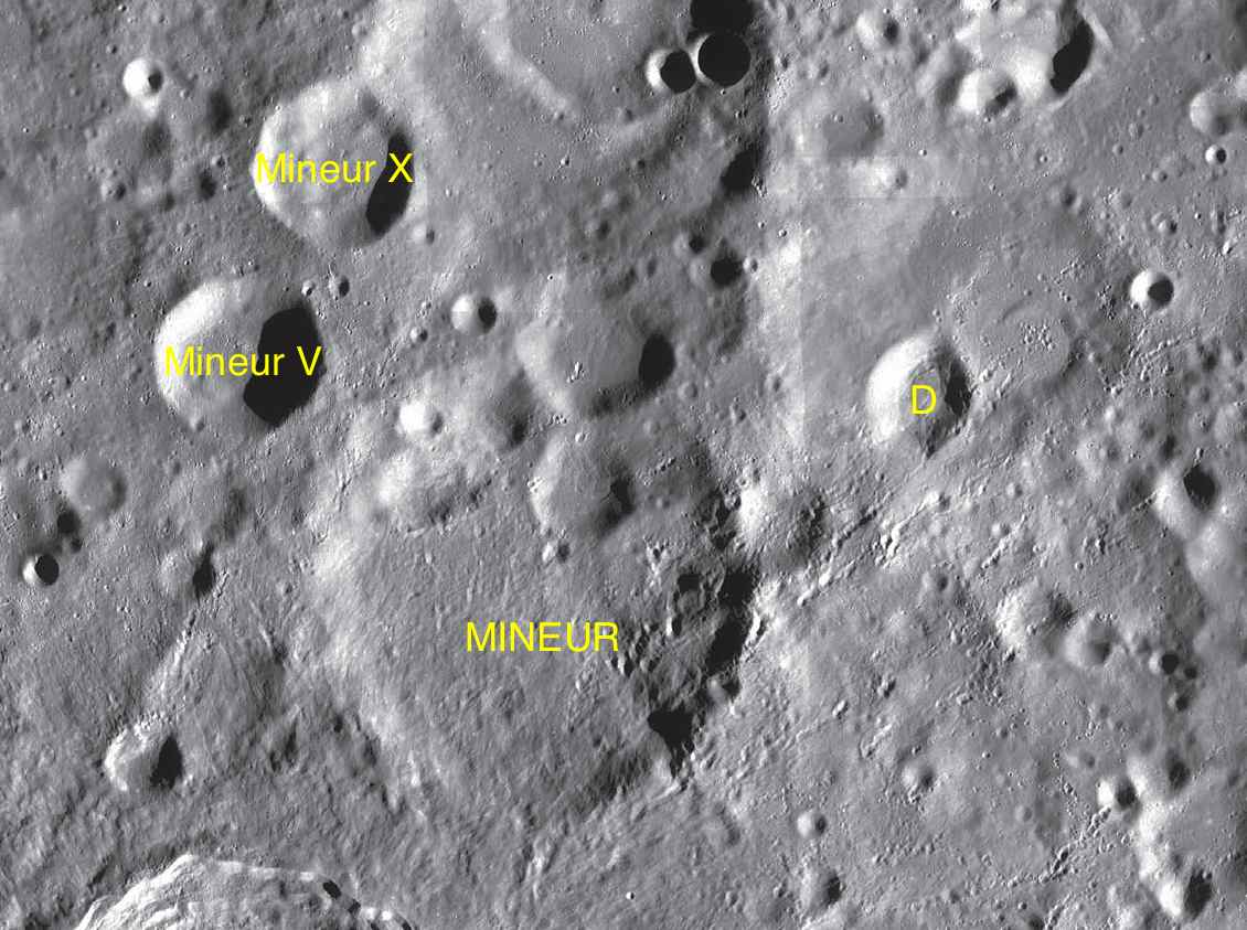 Part of the chart LAC-51 used for the presentation